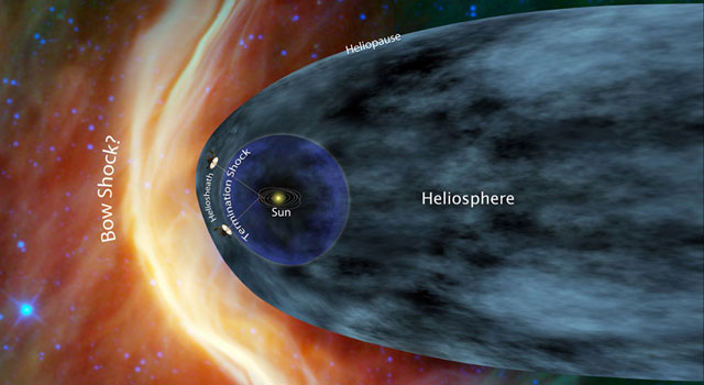 Voyagers in the heliosheath region.